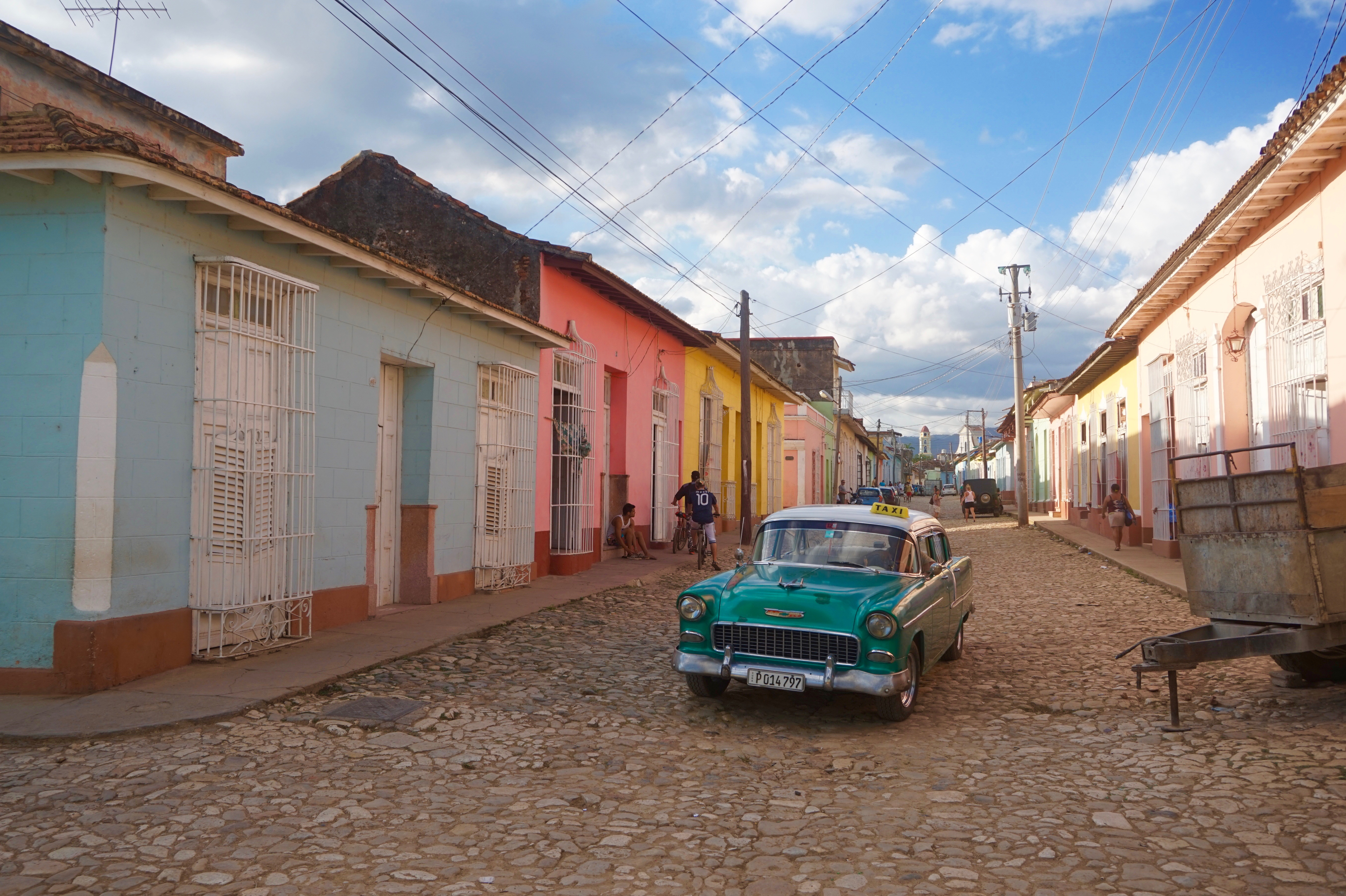 Cobblestone street in Trinidad, Cuba, UNESCO World Heritage City